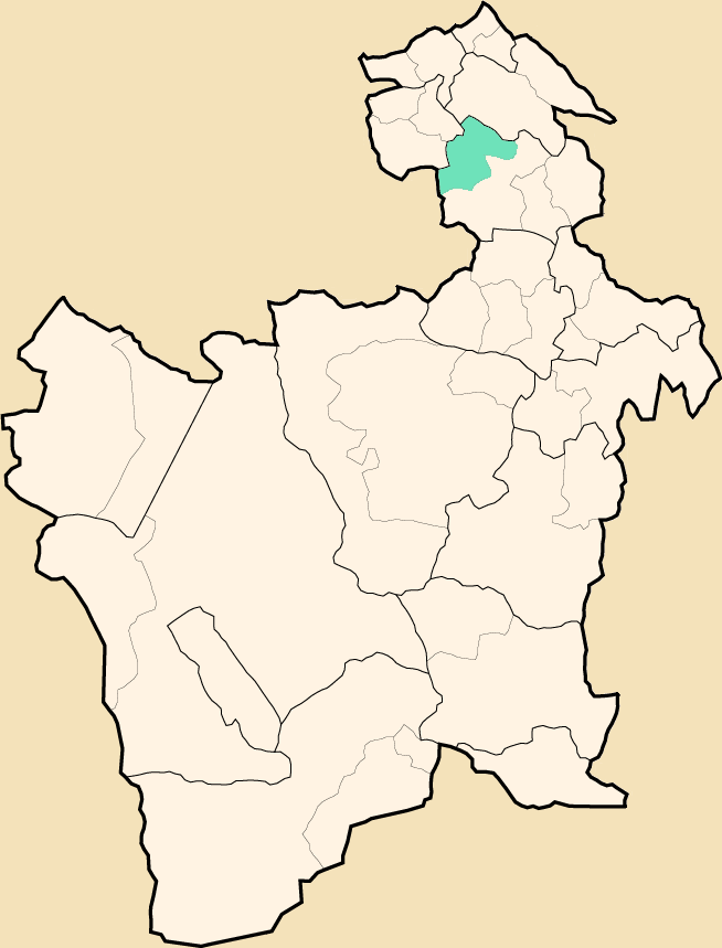 Pocoata Municipality, Potosí Department